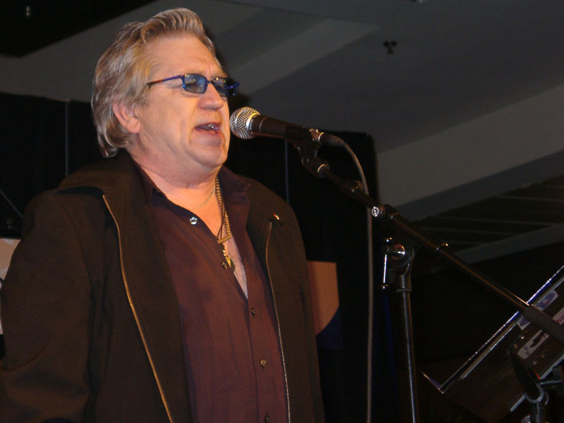 Pete "Wyoming" Bender in concert